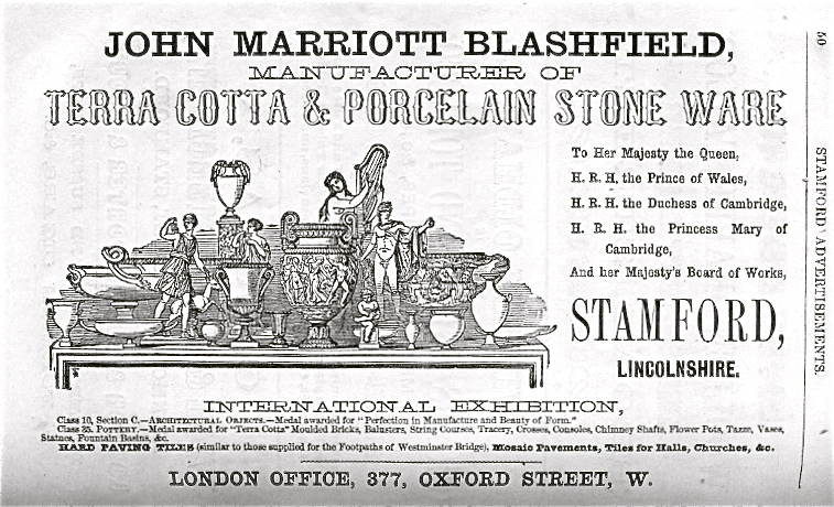 Blashfield's Terracotta and Porcelain Stoneware, Stamford 1863